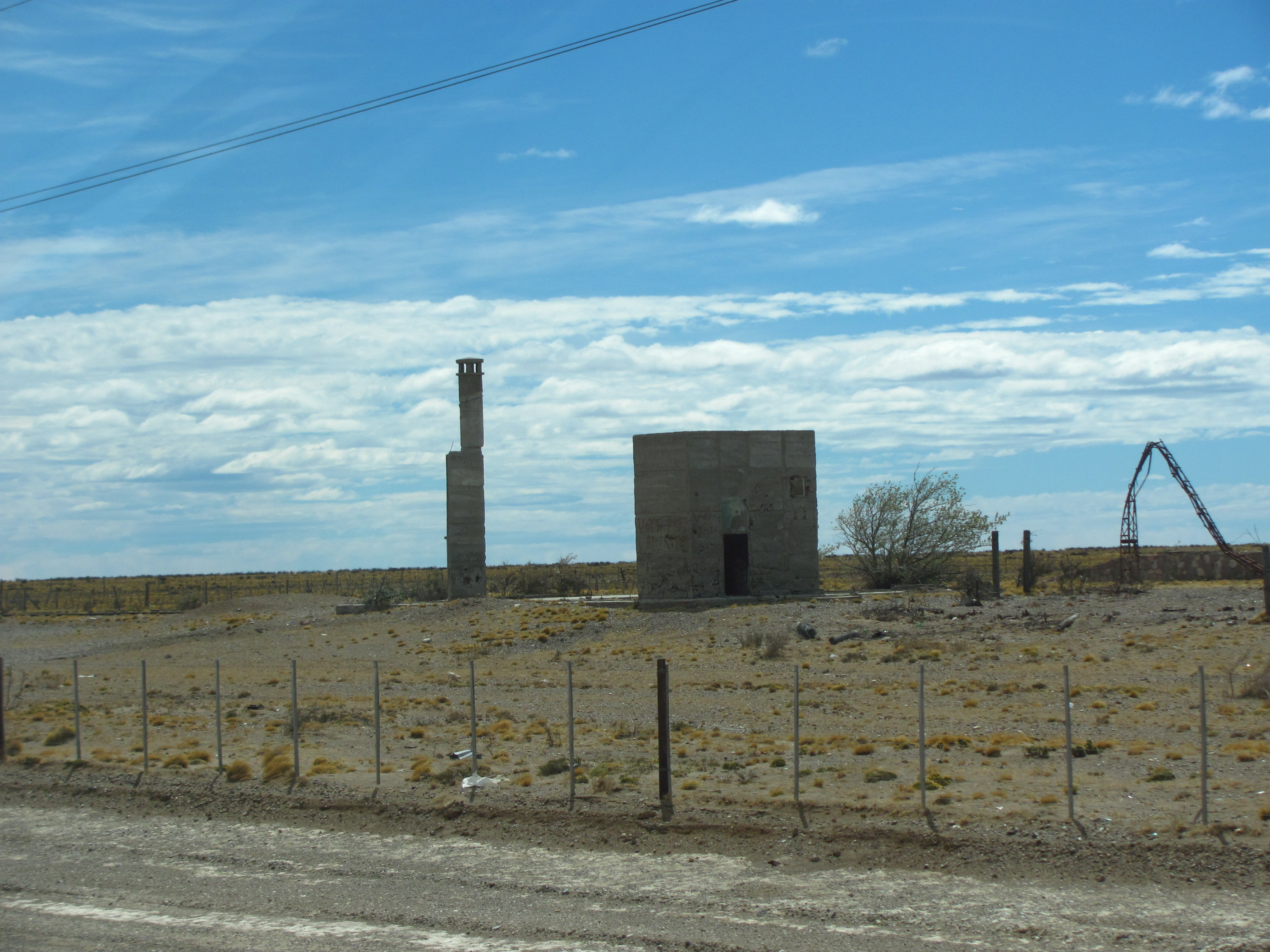 View of the abandoned Antonio de Biedma railroad station in Santa Cruz, Argentina.